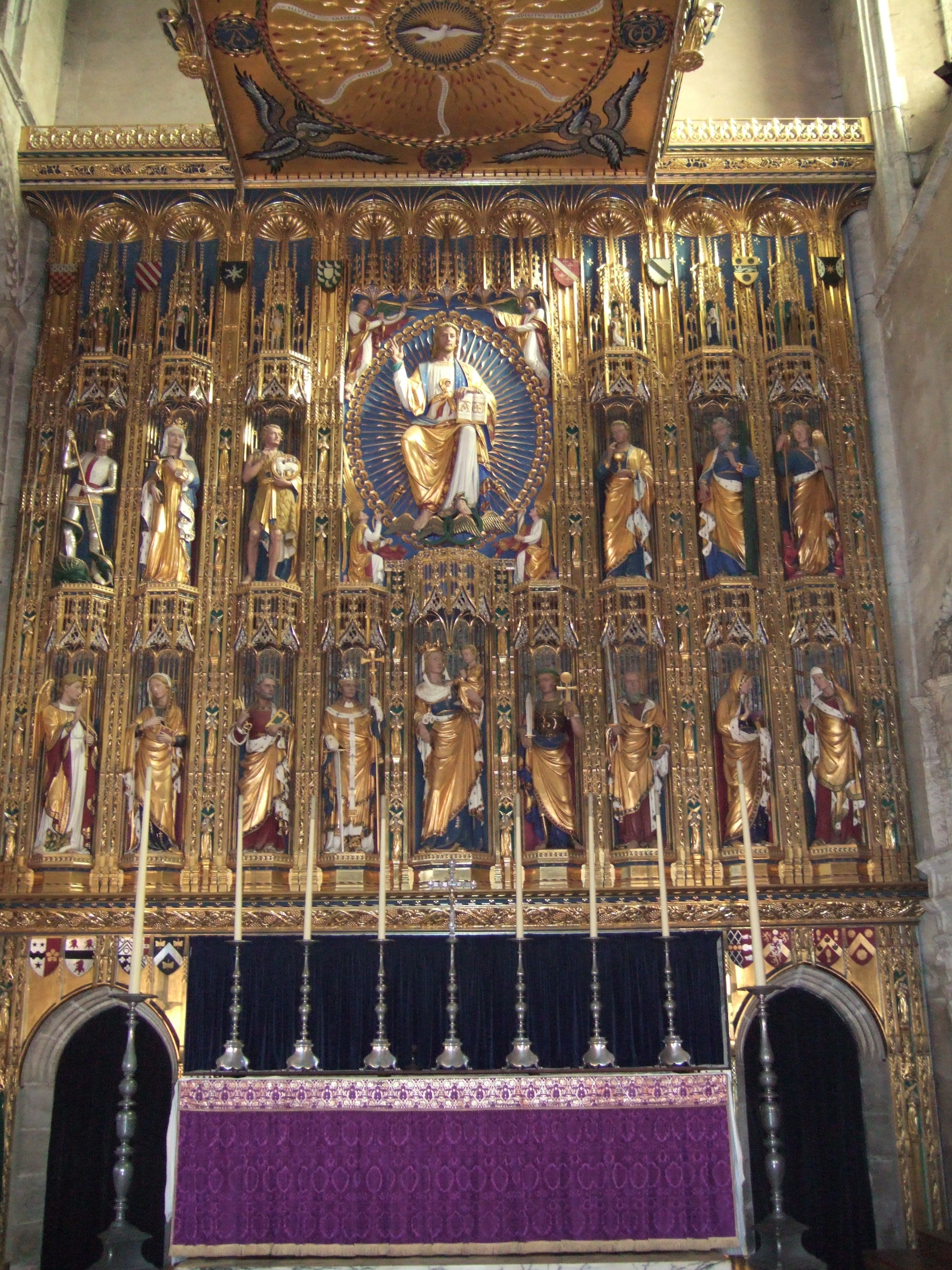 Reredos (altar screen) with tester and rood figures designed by Sir Ninian Comper, 1922. Photographer: Richard Barton-Wood